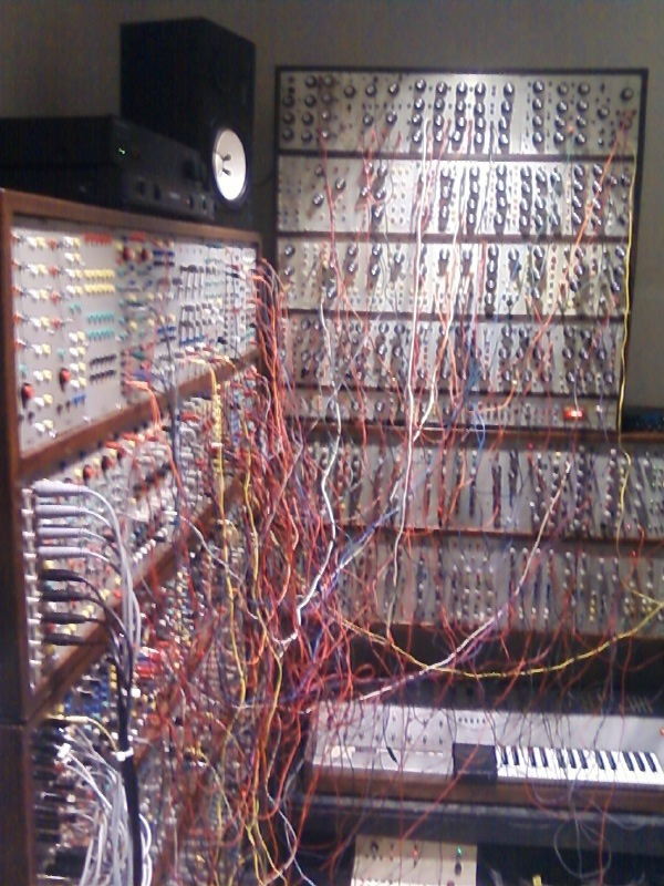 Joe Paradiso's Modular Synthesizer @ MIT Media Lab, February 6, 2011